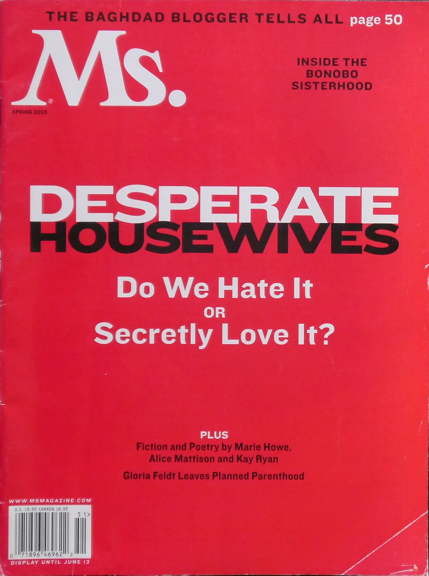 Ms. magazine, Spring 2005 "Desperate Housewives" issue